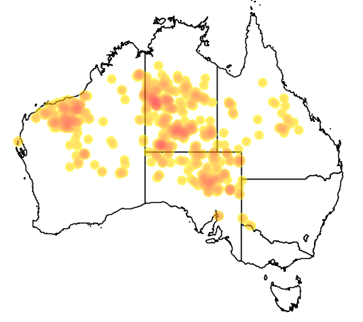 Map of Australia showing the distribution of Pseudomys desertor across various states.